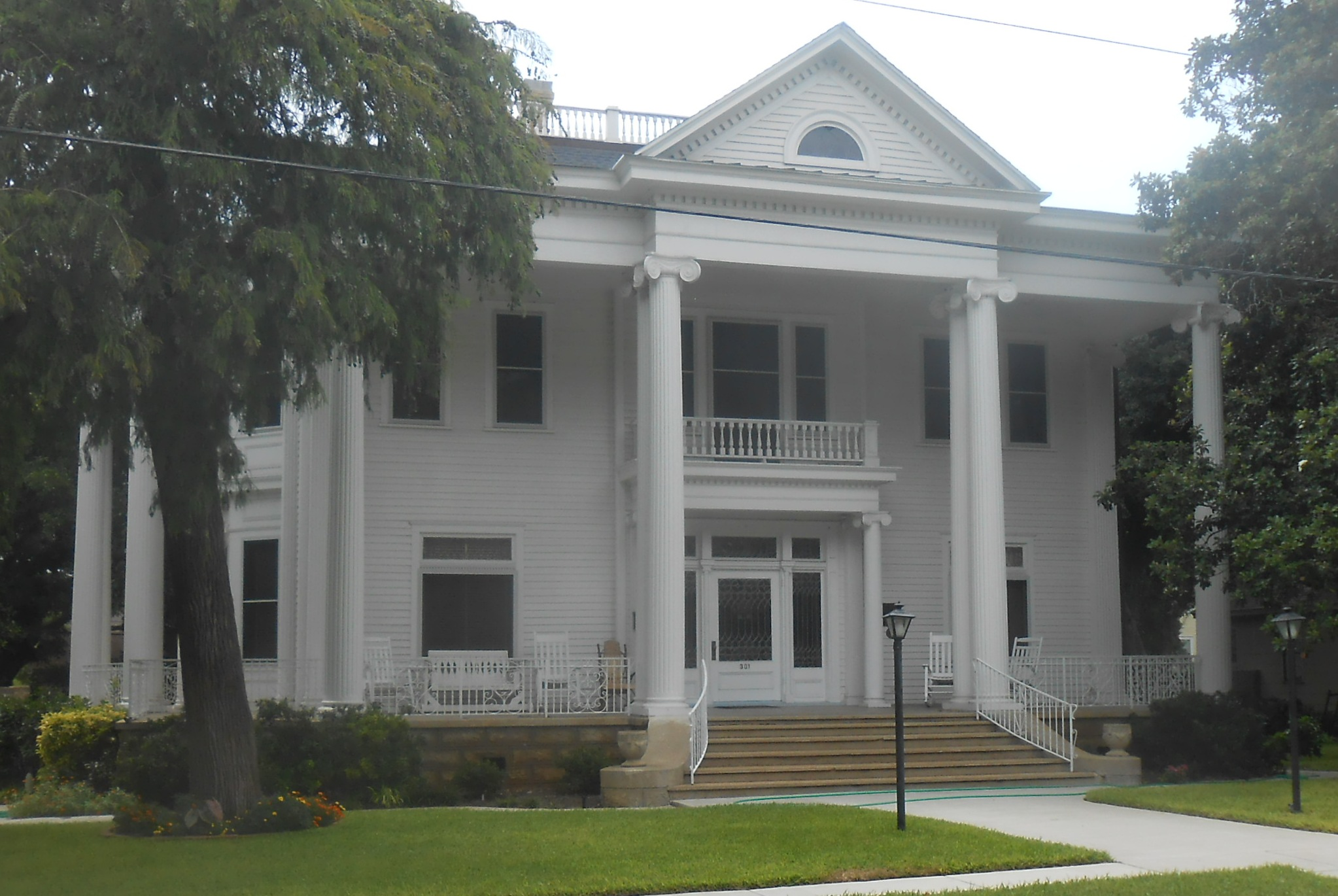 J. V. Vandenberge House, 301 N. Vine St., Victoria, Texas - east (Vine St.) facade